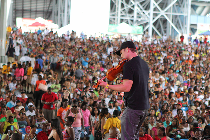 Josh Vietti performs at Stone Soul Music Festival in Richmond, VA